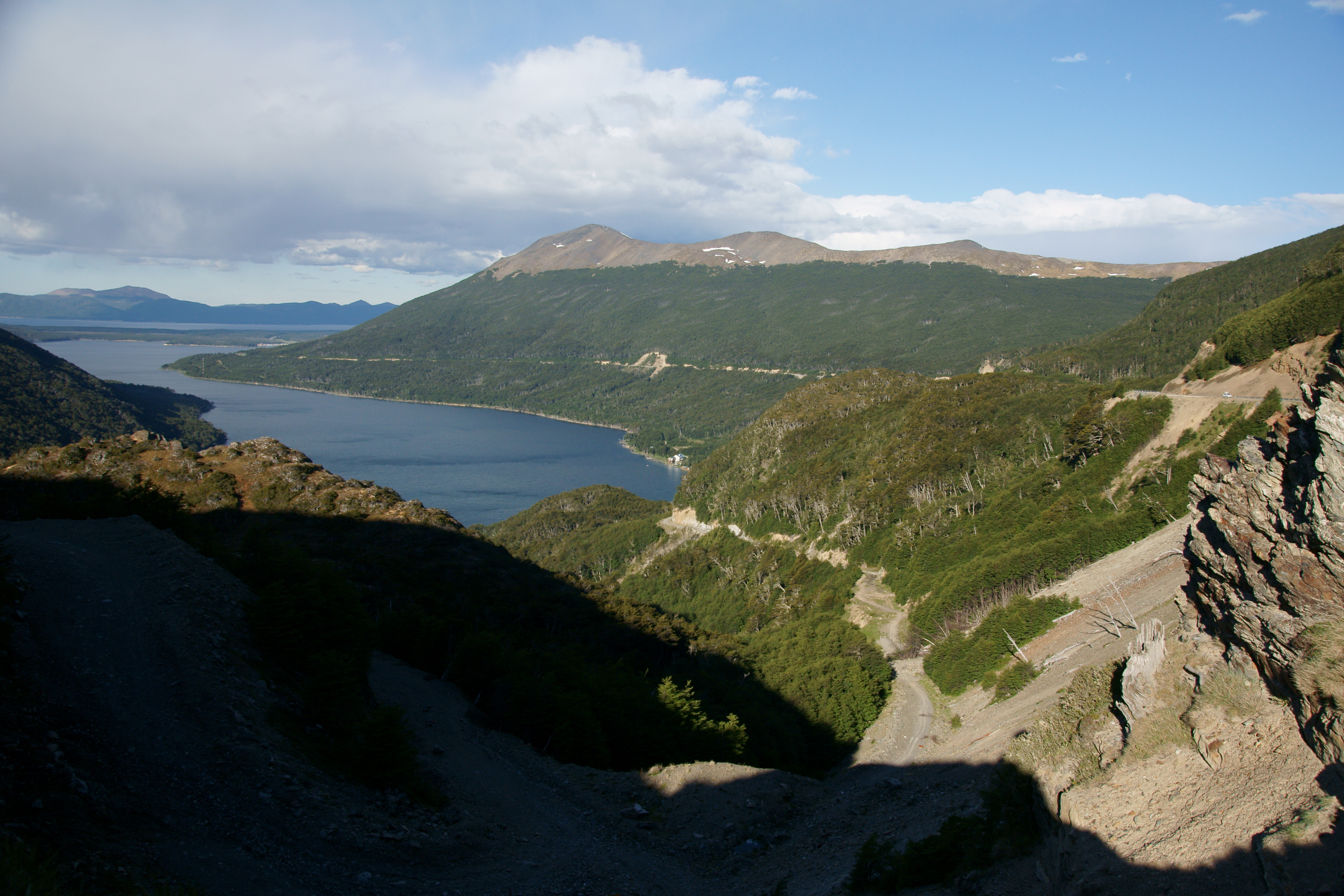 The National Route 3 (Pan-American Highway) at Garibaldi Pass (Tierra del Fuego)